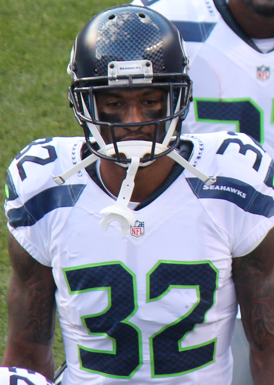 A. J. Jefferson, a player on the National Football League.